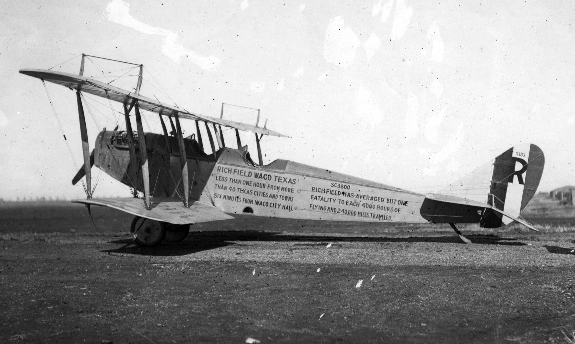 A Jenny at Rich Field, Waco bragging of low fatality rate.